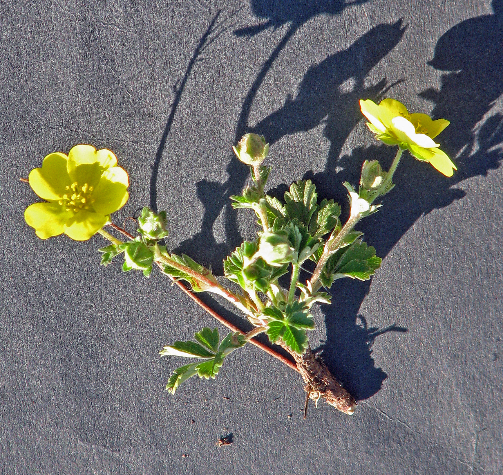 Potentilla pusilla, Graz (Austria)